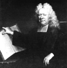 William Carstares (1649-1715)